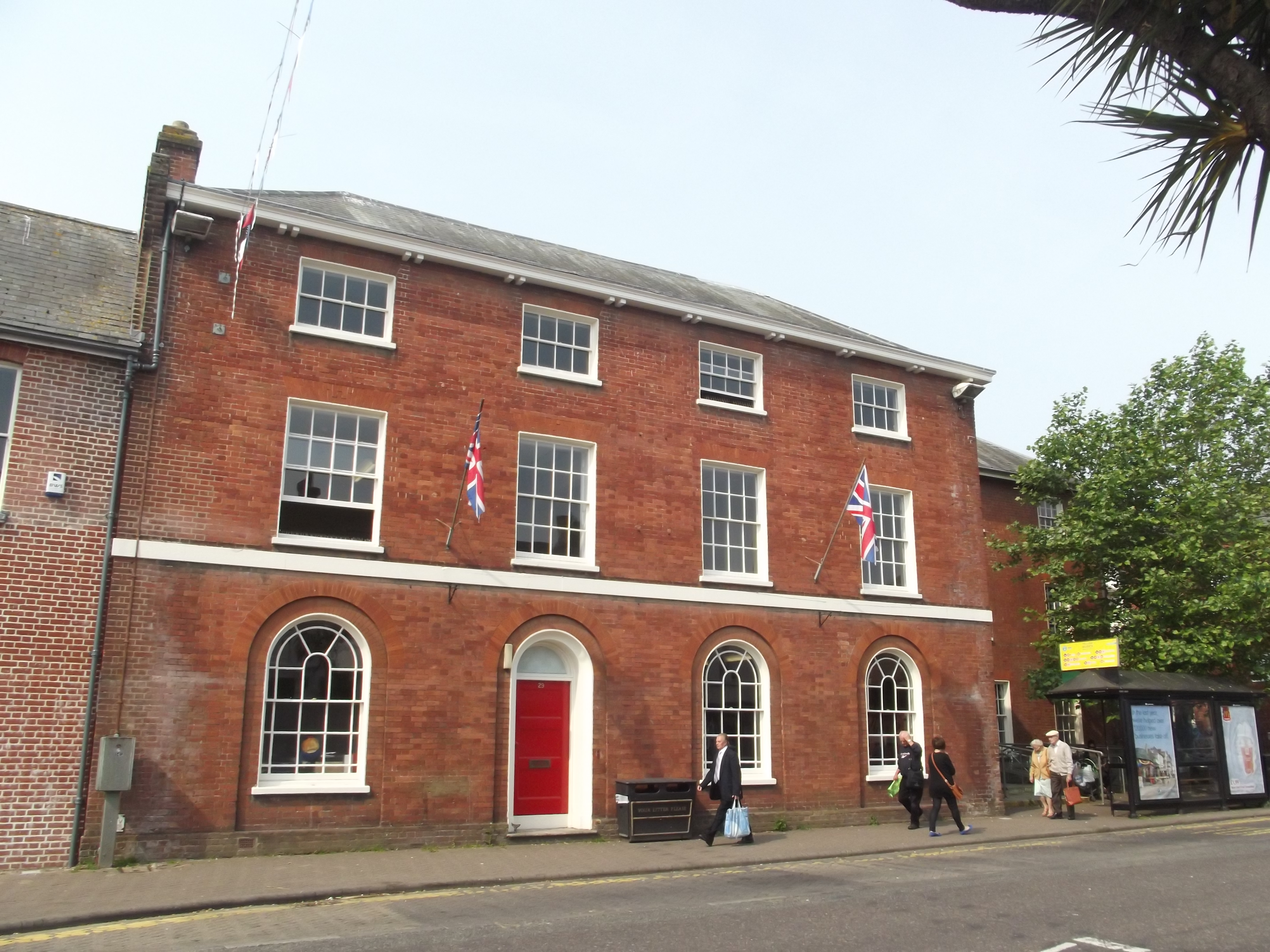 The High Street in Christchurch, Dorset, England. Christchurch Library - 29 High Street - Grade II listed building. 29, High Street, Christchurch HIGH STREET 1. (South West Side) 5187 No 29 SZ 1592 1A/1 II GV 2. Early C19. Red brick with eaves bracket cornice, stuccoed string course above ground floor. Hipped slate roof. L shaped facade with recessed north-west wing. 3 storeys. 7 windows in all. Sashes with glazing bars. Round arched doorway with semi-circular fanlight. Nos 25 to 29 (odd), No 31 and Nos 43 and 45 with the walls at the rear of No 29 and those in the Druitt Gardens form a group with the Town Hall and Nos 38, 38A, 42 to 46 (even) and the Ship Hotel opposite. No 25, No 31, No 45, Nos 38, 38A, and No 46 are buildings of local interest. Listing NGR: SZ1579192782 This text is a legacy record and has not been updated since the building was originally listed. Details of the building may have changed in the intervening time. You should not rely on this listing as an accurate description of the building. Source: English Heritage